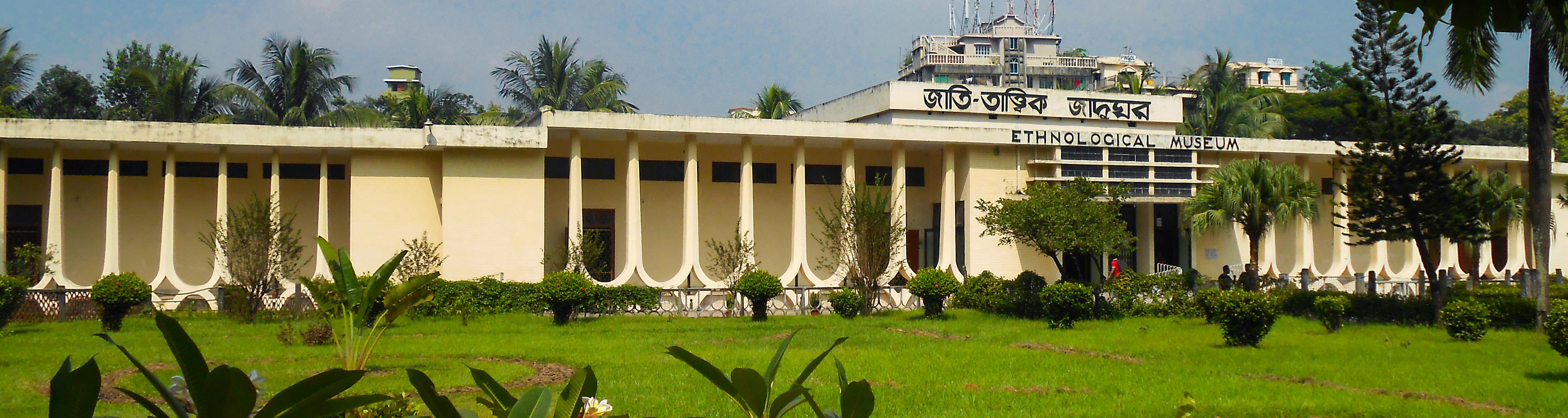 Ethnological Museum of Chittagong